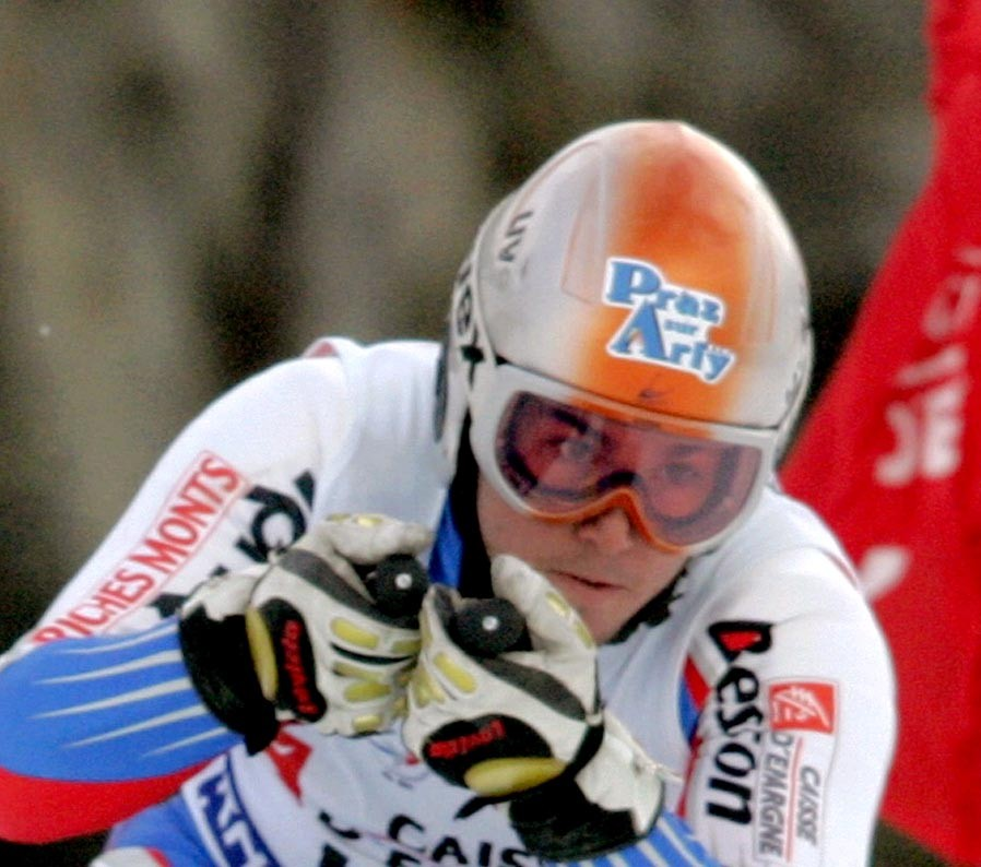 Portrait_Ski_FANARA